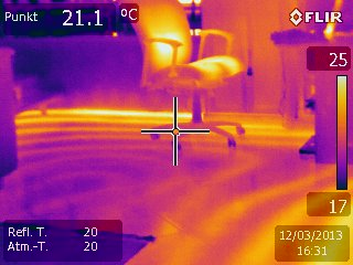 Floor heating below the author's chair.